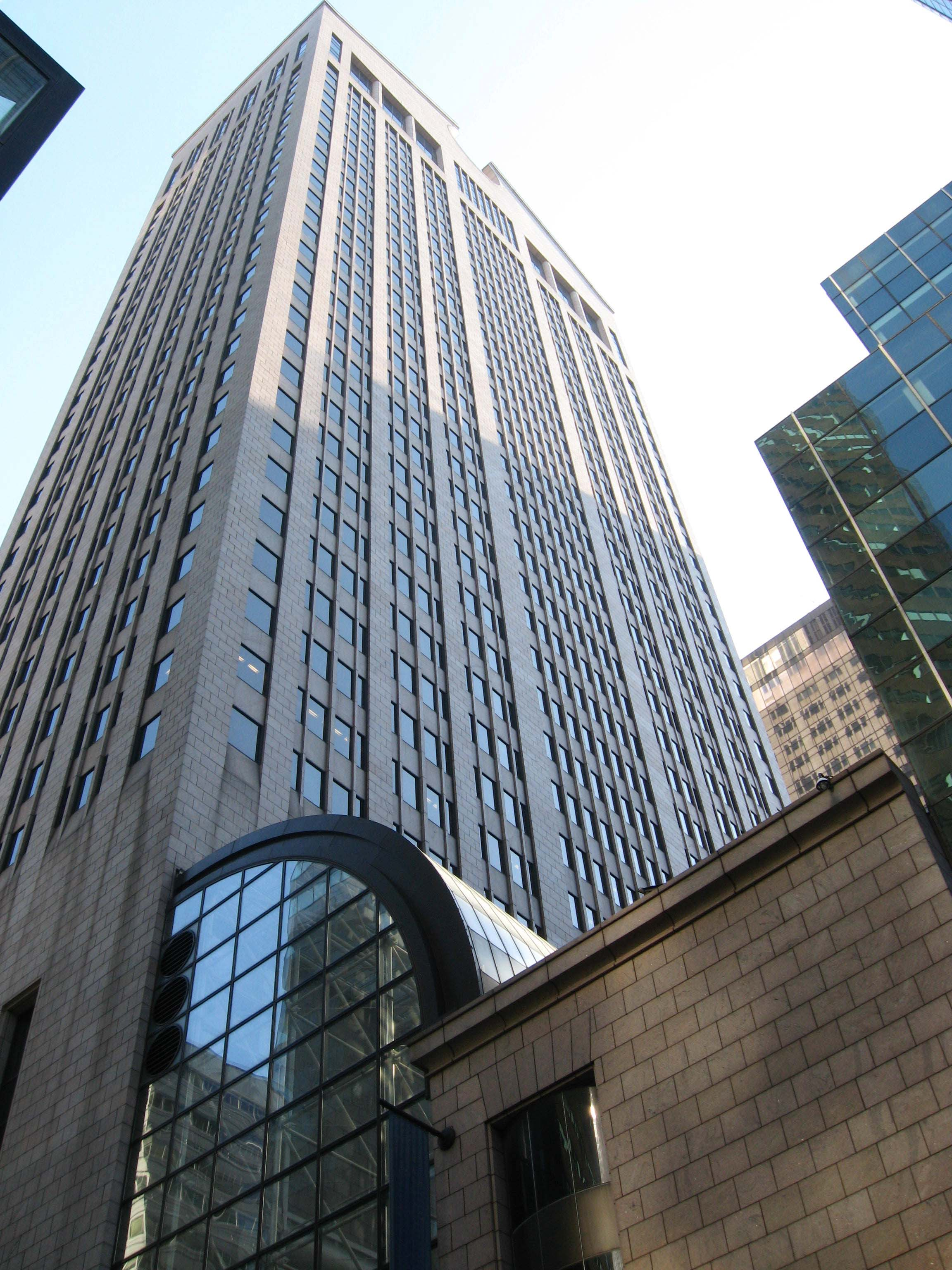 Looking up and southeast at Sony Building, Manhattan from 56th under IBM's canopy on a sunny afternoon. See also File:Sony Building by David Shankbone.jpg.